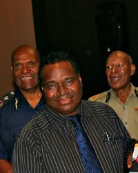 Minister for Justice and Attorney General Davis Steven with Chief Magistrate Nerrie Eliakim officially launching the Transforming District Courts Plan and Procedural Manual with Australian High Commission Minister Counsellor, Andrew Egan.